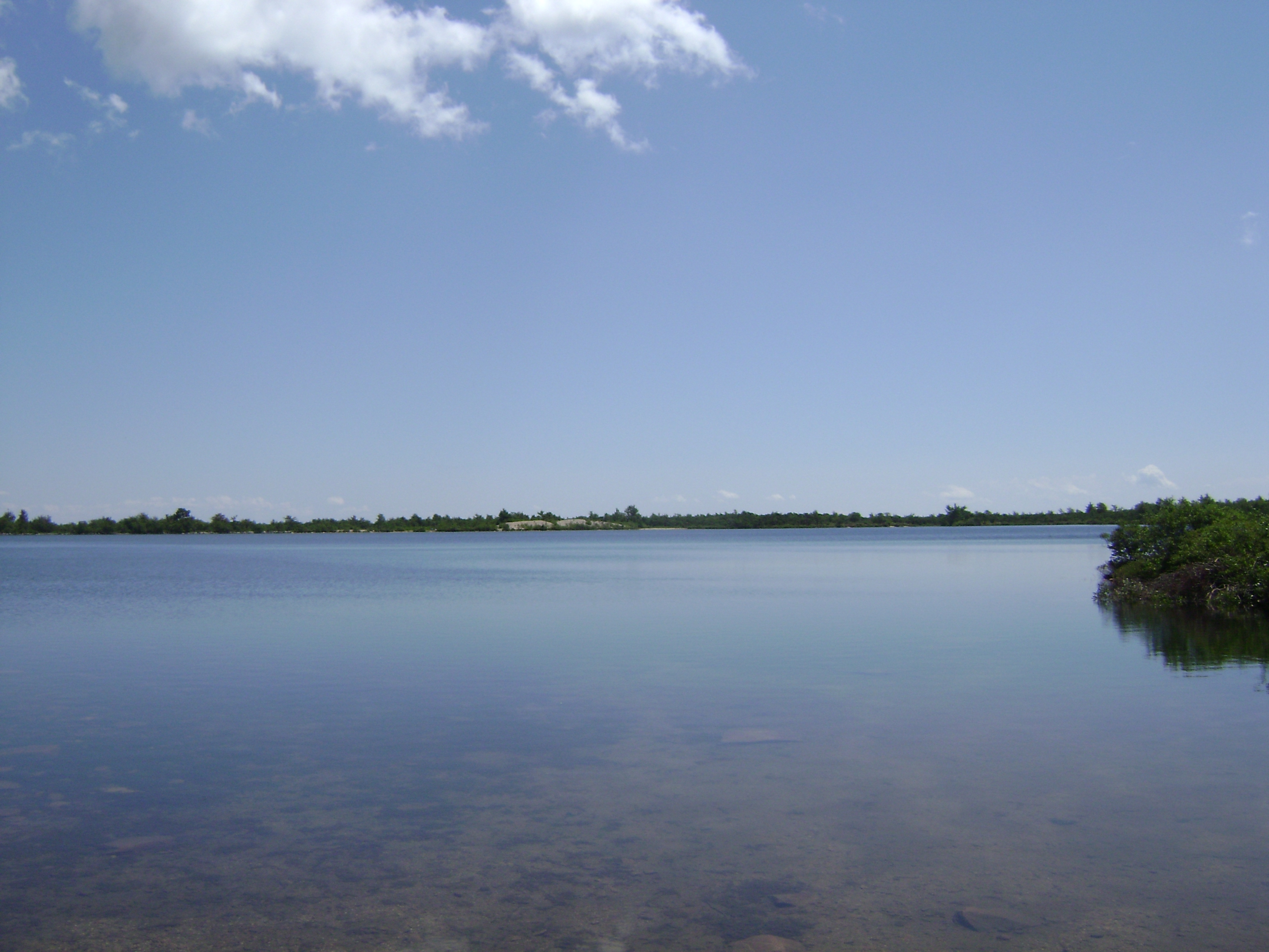 Lake Maratanza, the highest lake of New York's Shawangunk Ridge, located at 2,245 feet (684 m) above sea level.